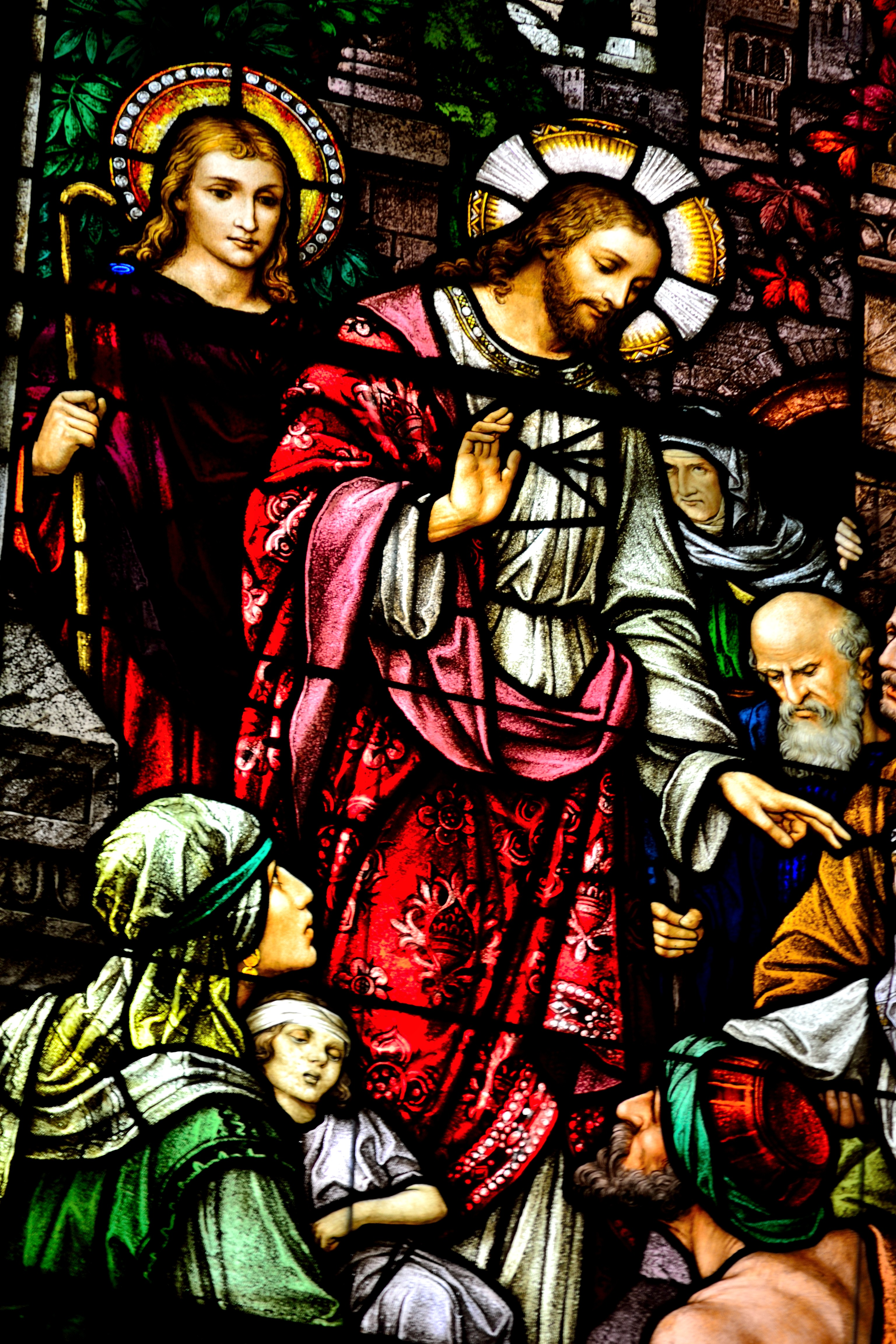 St. Hyacinth Basilica - Stained Glass